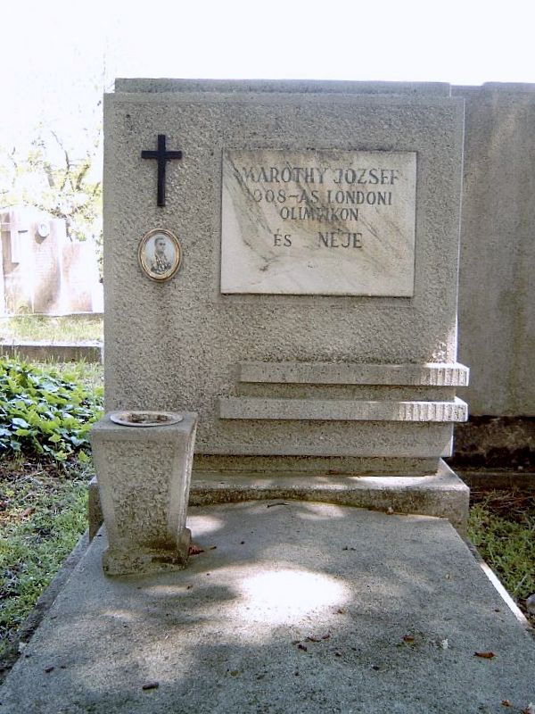 Grave of József Maróthy Hungarian Olympian